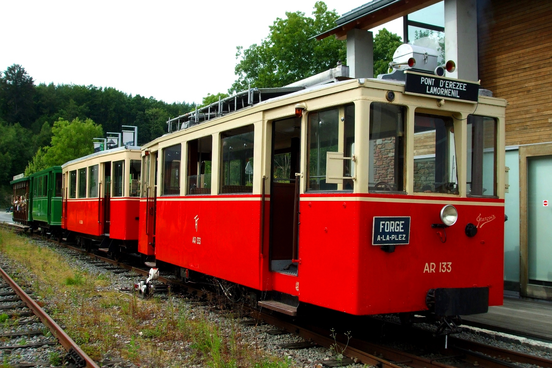 Keywords : TTA, SNCV, vicinal railways, rail, metre gauge, tram, train, museum, touristic railway, Pont d'Erezée, Erezée, Belgium